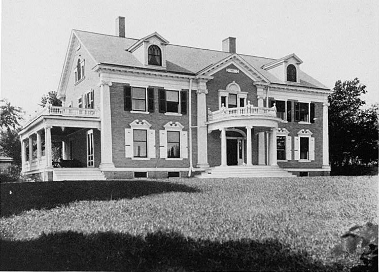 Built for W.W. Witmer in 1905, it served as the Governor's Mansion in Des Moines from 1944-1976. It is a contributing property in the Owl's Head Historic District on the National Register of Historic Places. Image courtesy of federal HABS—Historic American Buildings Survey in Iowa project.